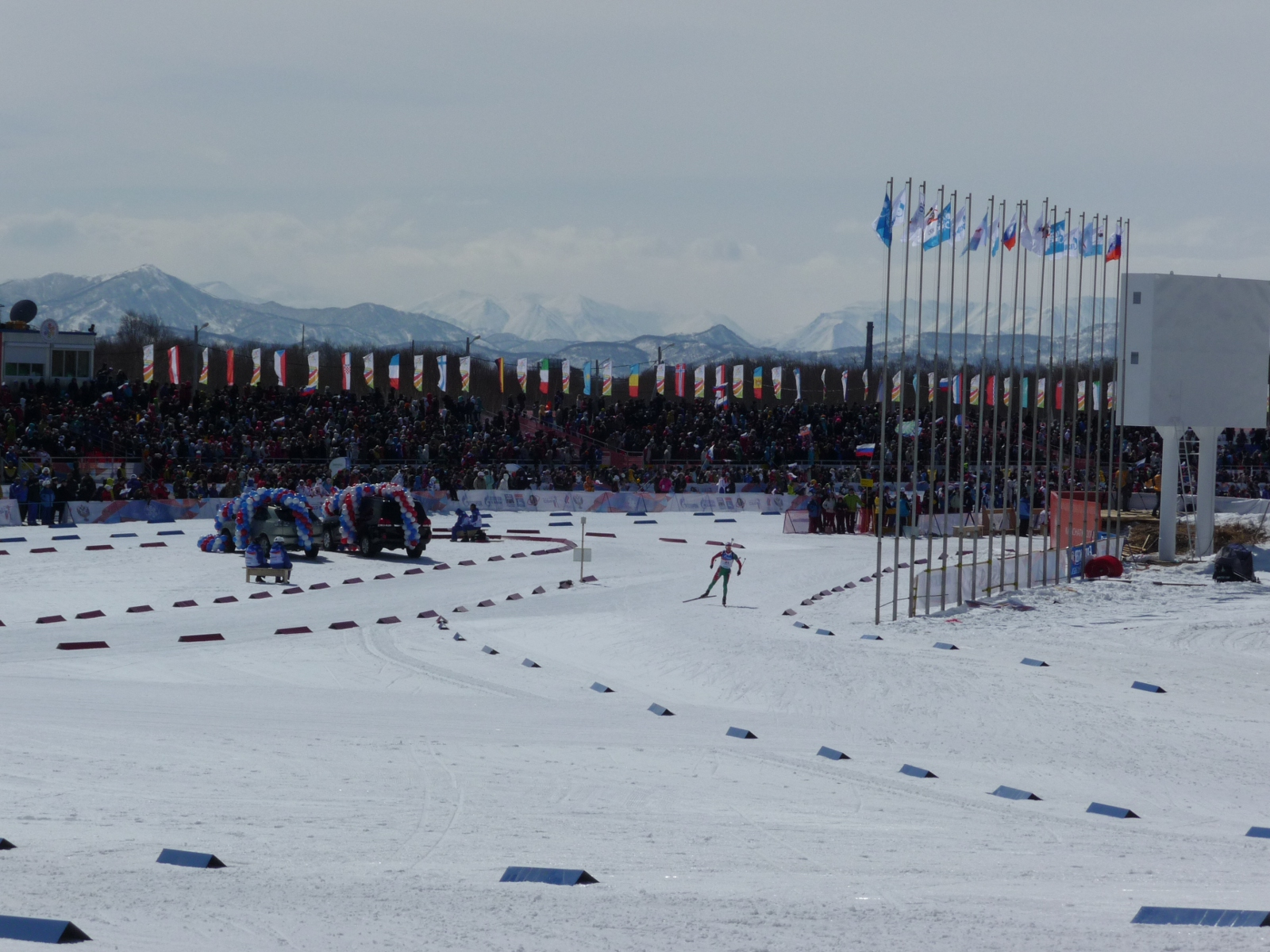 Petropavlovsk-Kamchatsky biathlon stadium. Vitaly Fatyanov prize competition.